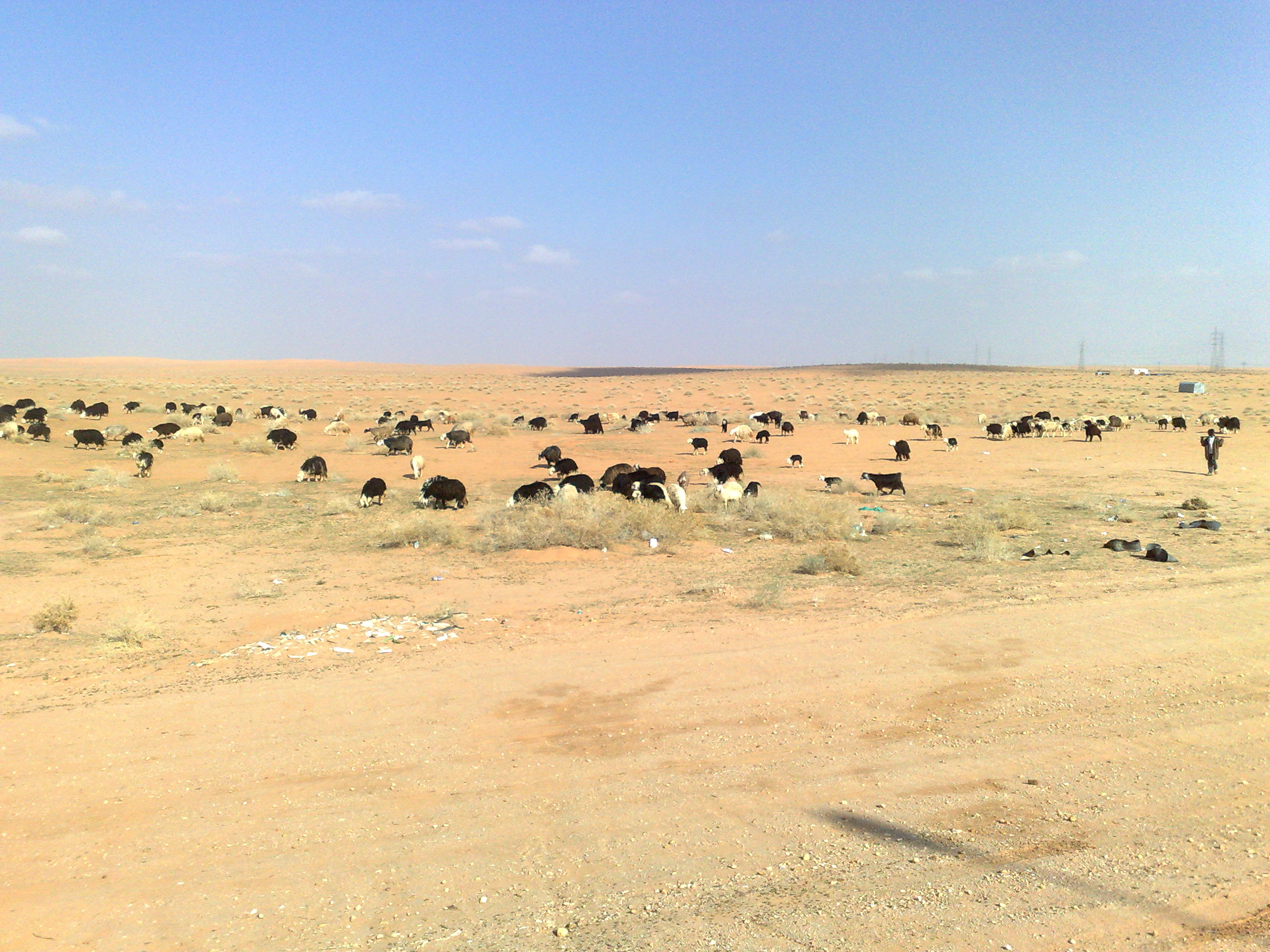 najdi sheep In the desert province Al-Bukairiyah (arabic: أغنام نجدية).